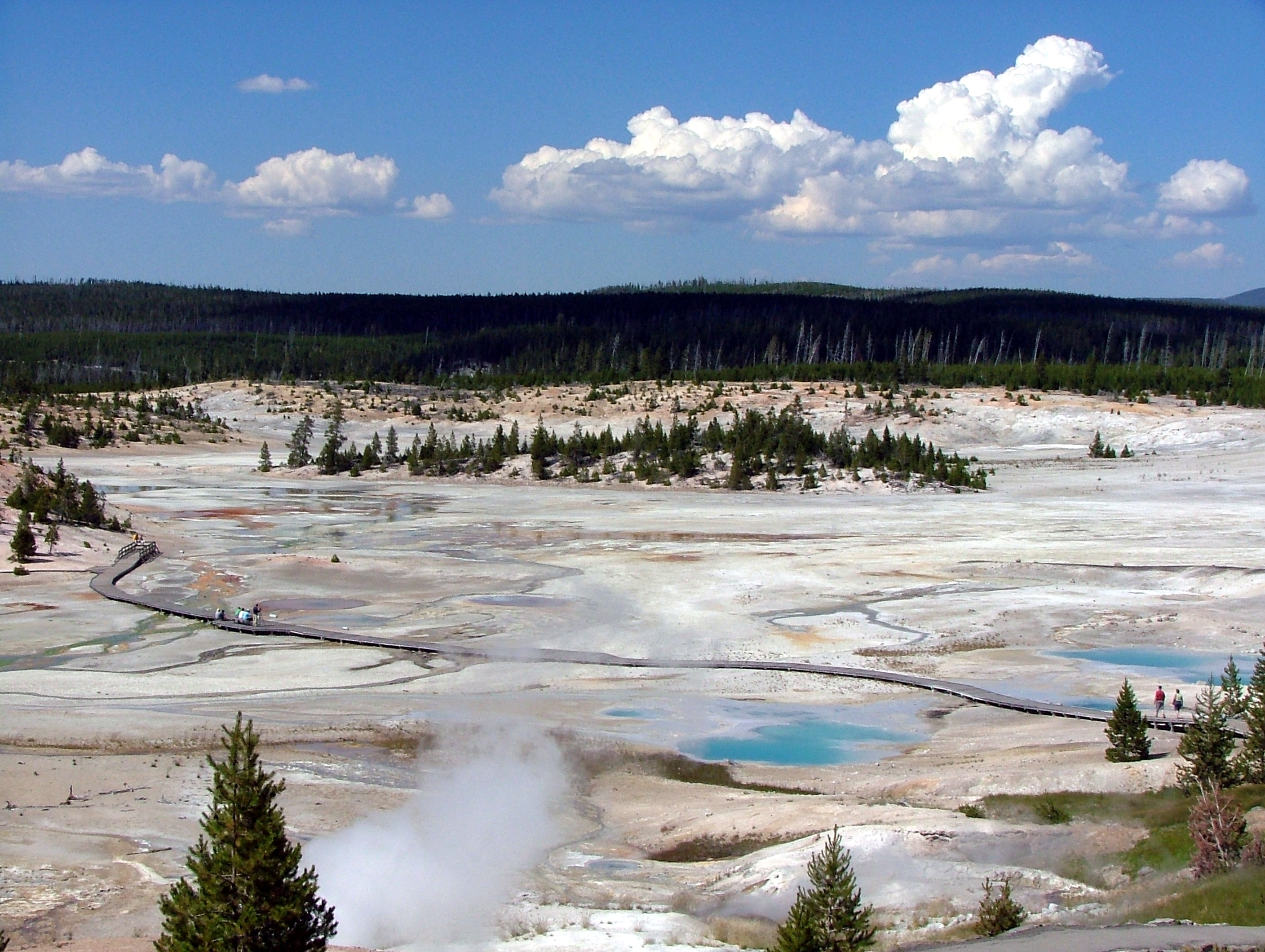 Porcelain Basin, Norris Area, Yellowstone National Park